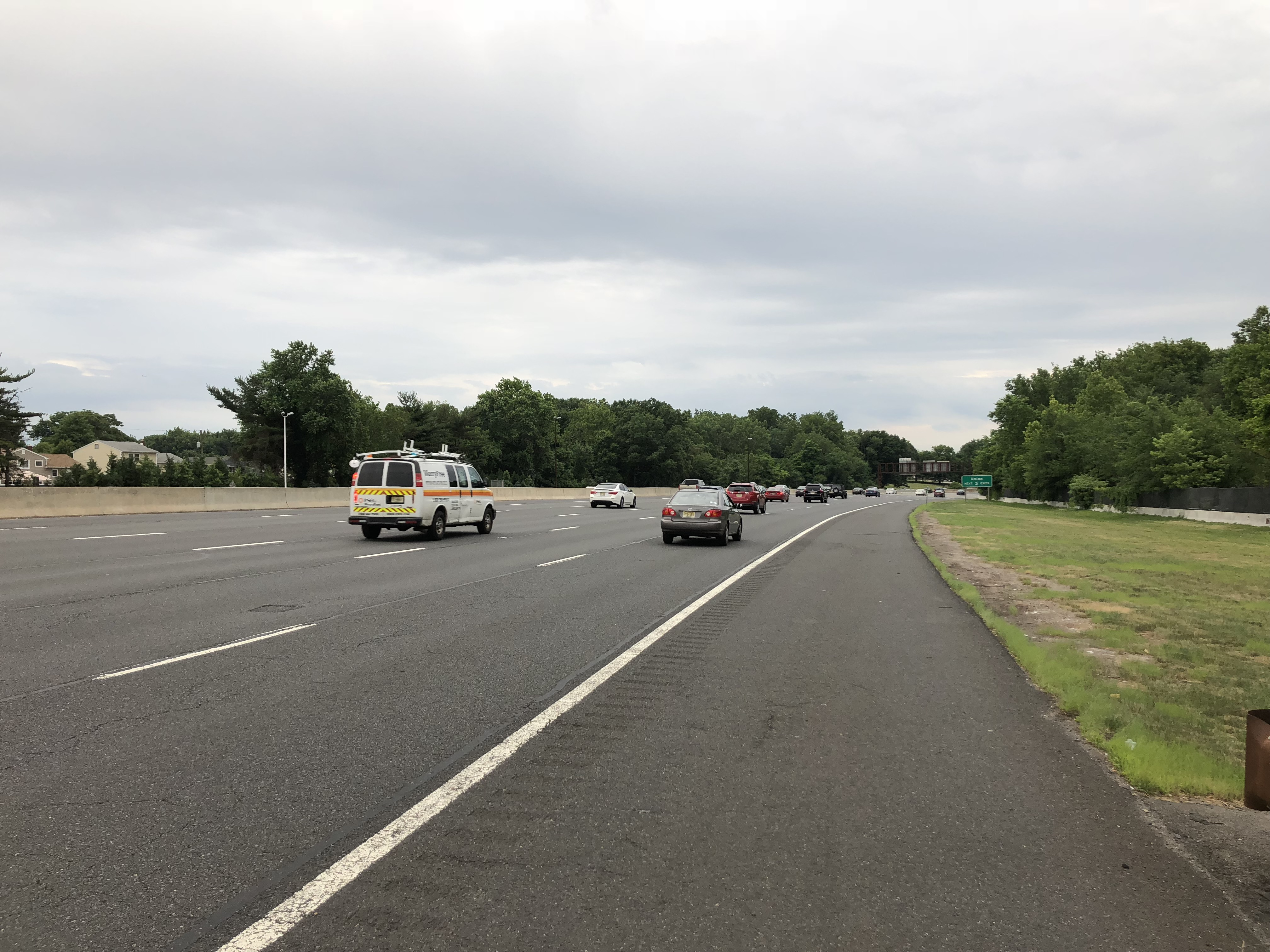 View south along New Jersey Route 444 (Garden State Parkway) between Exit 142 and Exit 141 in Hillside Township, Union County, New Jersey